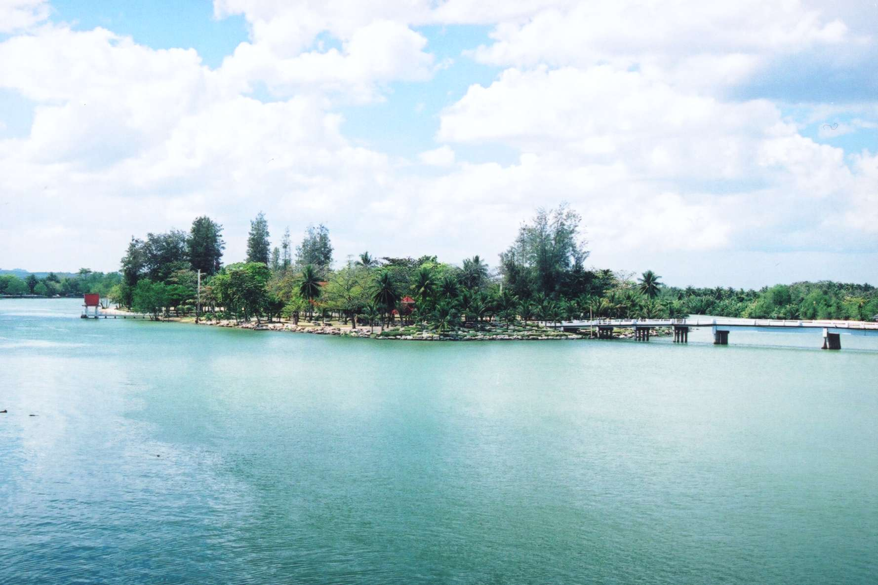 Ko Lamphu, island in the river Tapi, at Surat Thani town, Thailand. The car-free island is a popular fitness ground as well as for picknick near the town center. Photo taken by User:Ahoerstemeier on January 21 2005.